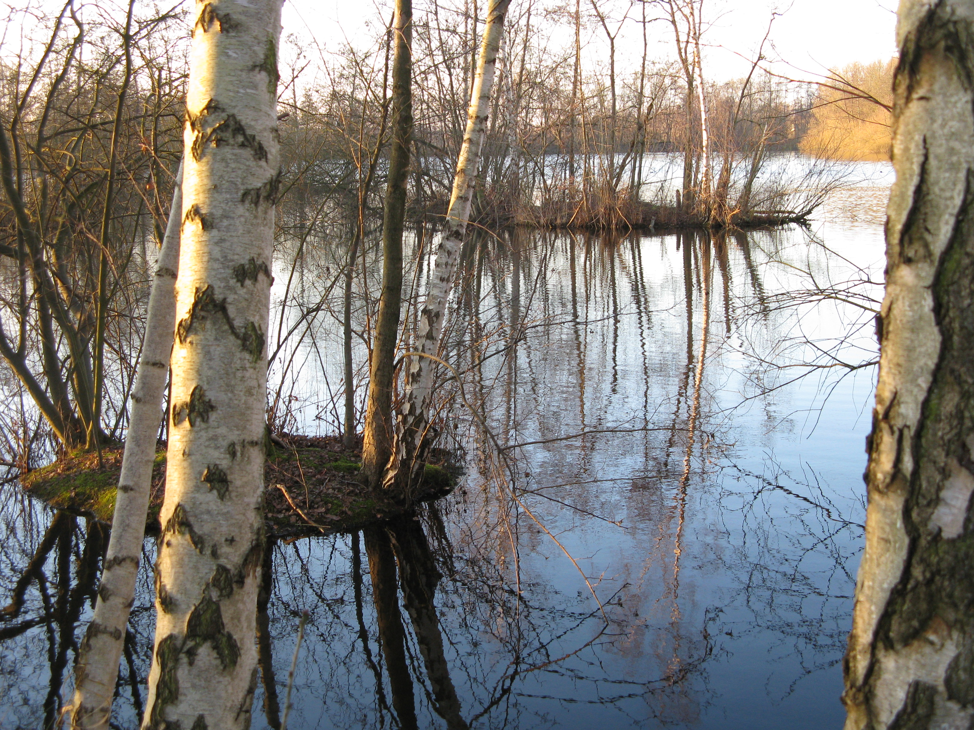 Betula pubescens - White birch trees at Lahder Marsh, North Rhine-Westphalia, Germany.